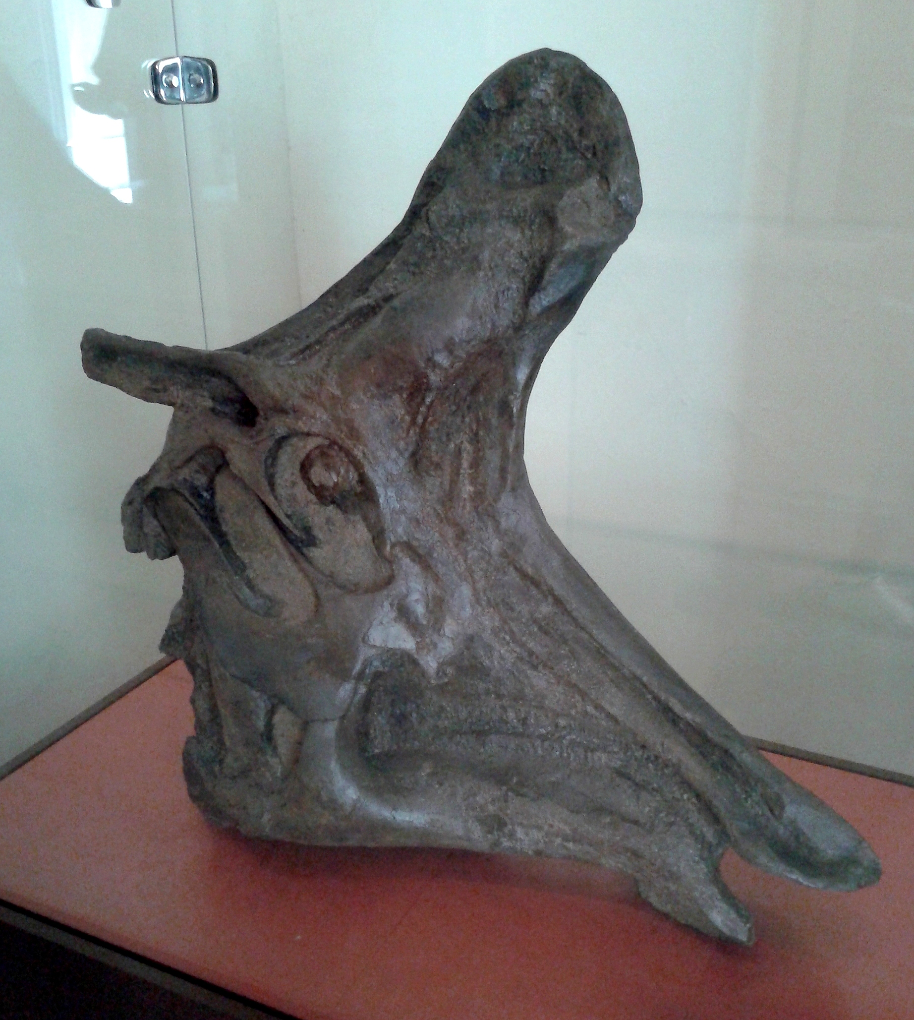 Classification: Ornitischia, Hadrosauridae Size: 15 meters (length) Feeding: herbivore